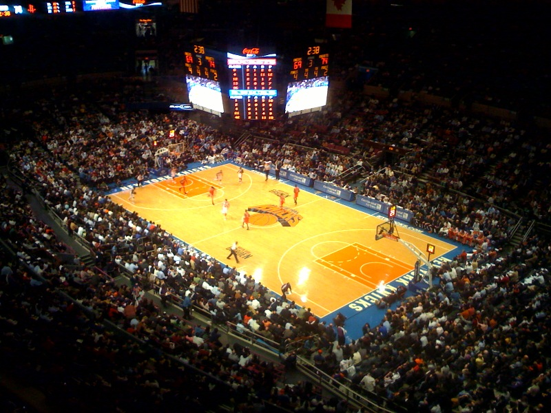 View of Knicks game at Madison Square Garden